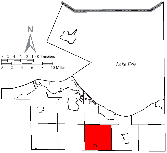 Made by the US Census and modified by myself